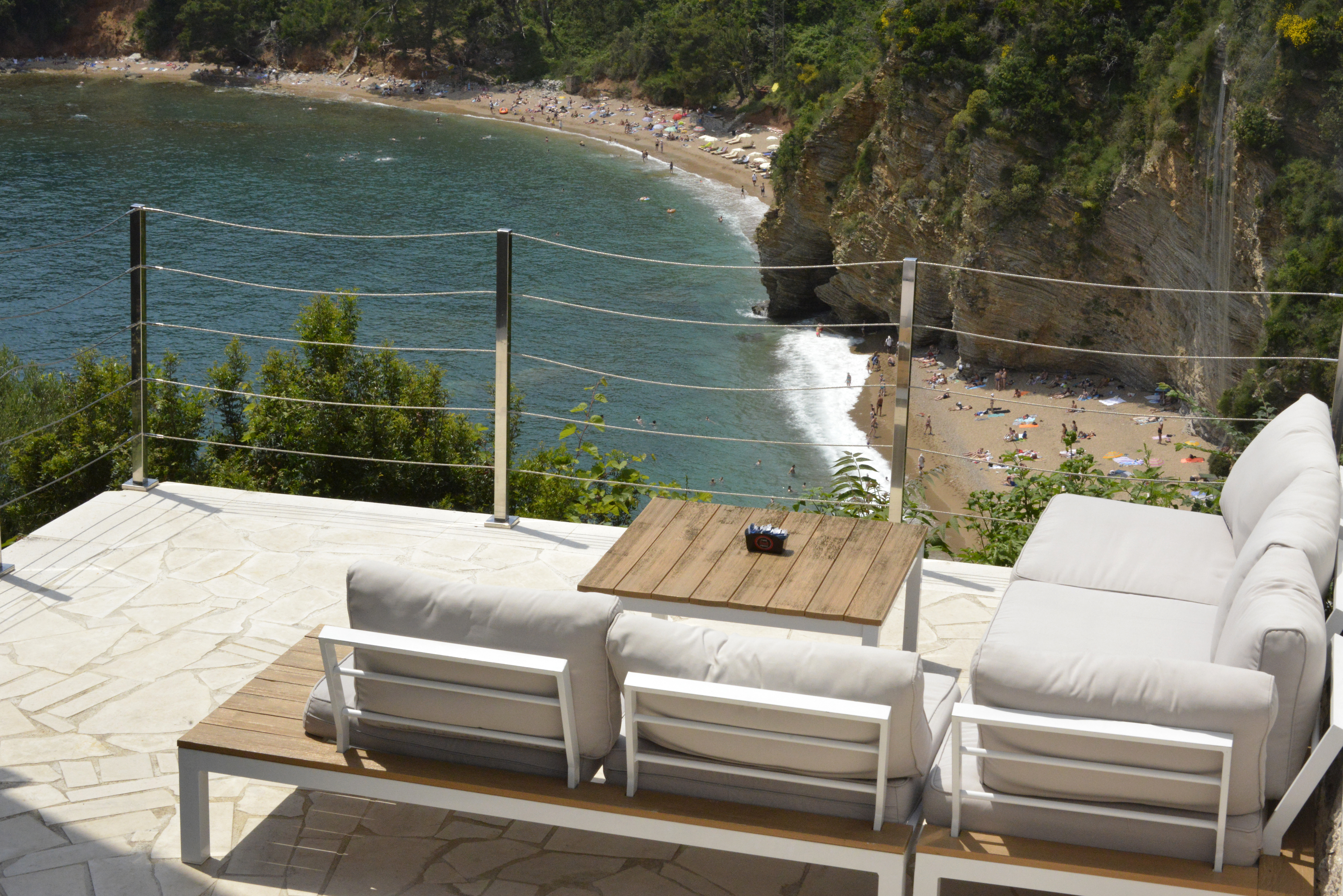 View of Mogren Beach from the viewpoint in the Restaurant on the Adriatic Highway